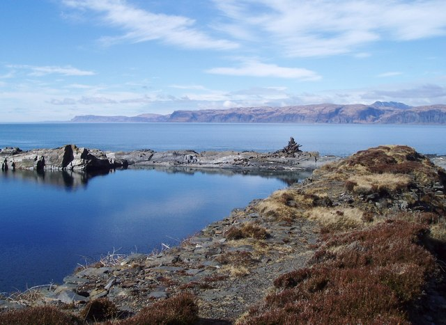 Flooded slate quarry on Easdale. Looking west towards the island of Mull